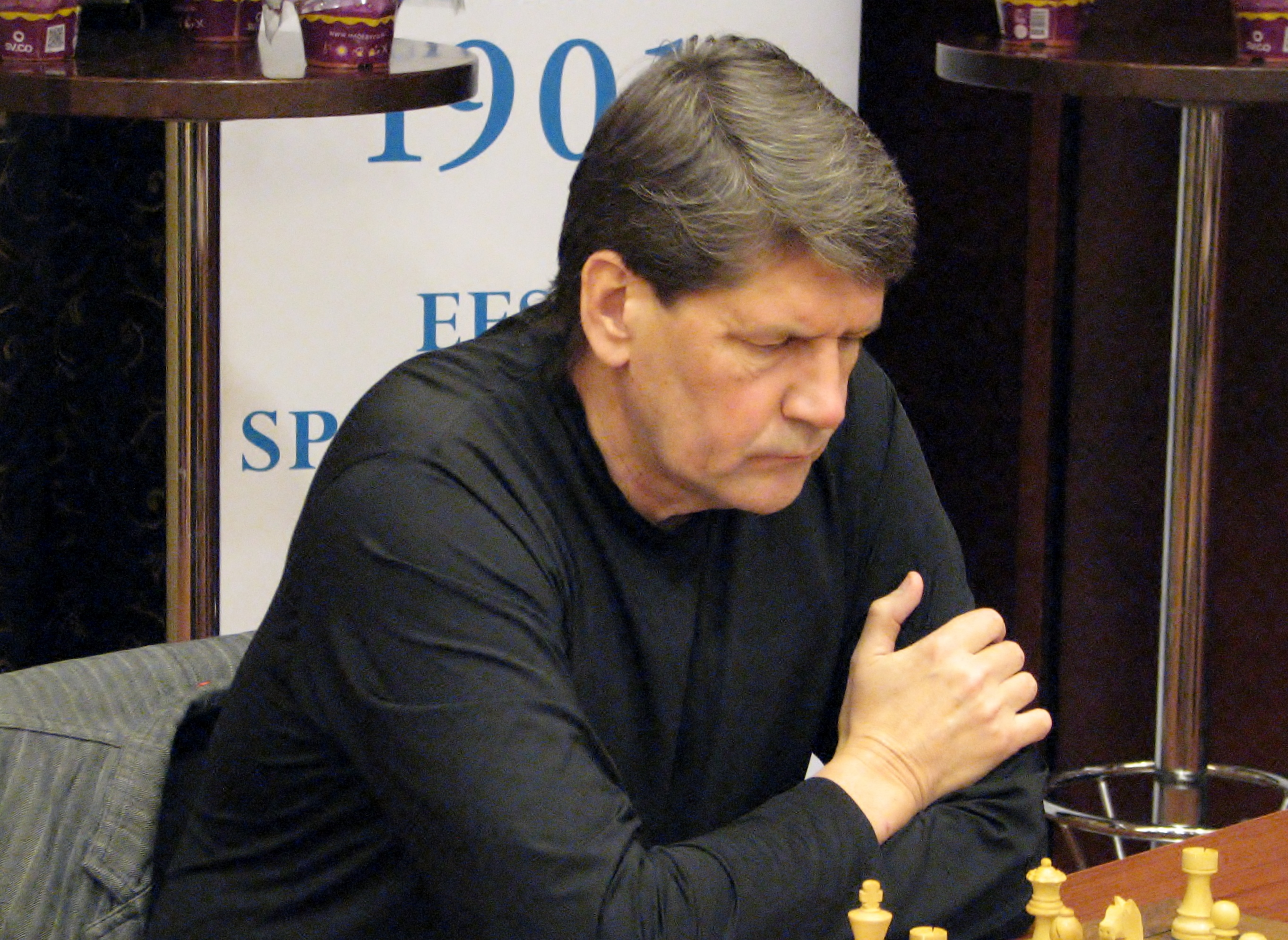 Grandmaster Igor Shvyrjov at "Paul Keres Memorial" 2014